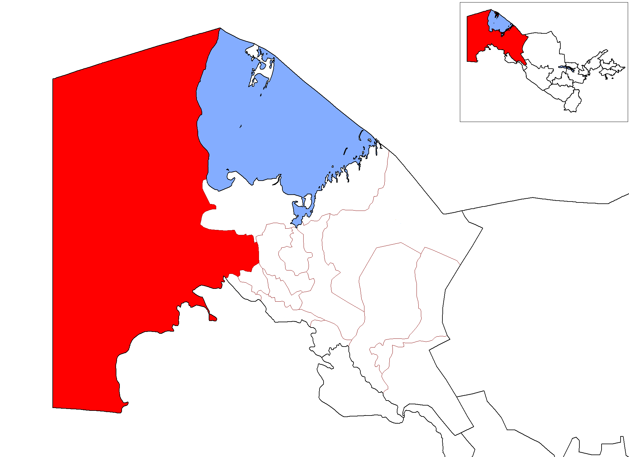 Location of Qo’ng’irot Disrict in Qoraqalpog’iston.